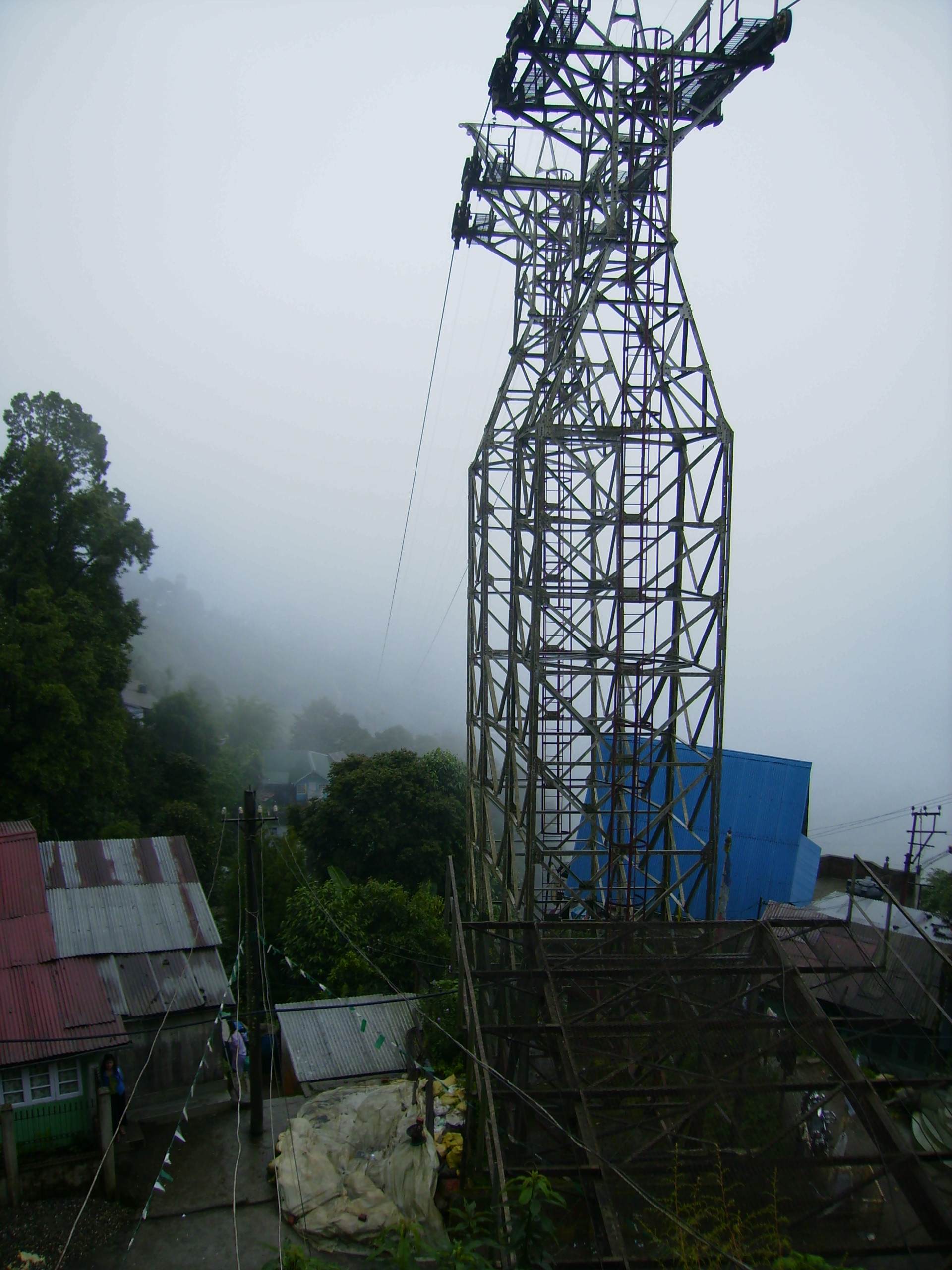 Photograph of Darjeeling Ropeway taken on 21st August 2008.